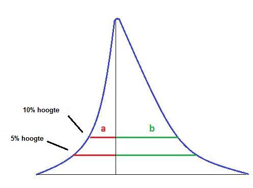 A Tailing Peak